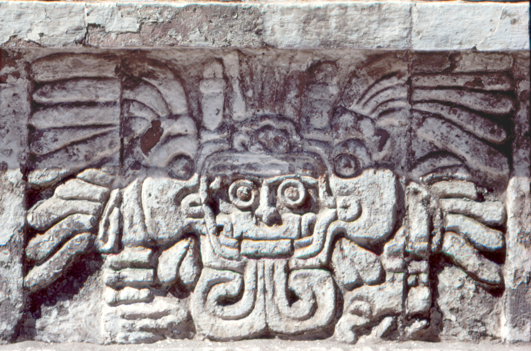 Tula, Hidalgo, Mexico: Pyramid of Tlahuizcalpanteuctli, bird-man.